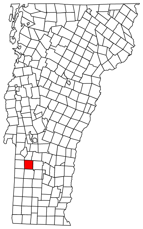 Description: Map of Vermont towns with Danby highlighted Source: Map created by Jared C. Benedict on 26 March 2004. Copyright: © Jared C. Benedict.